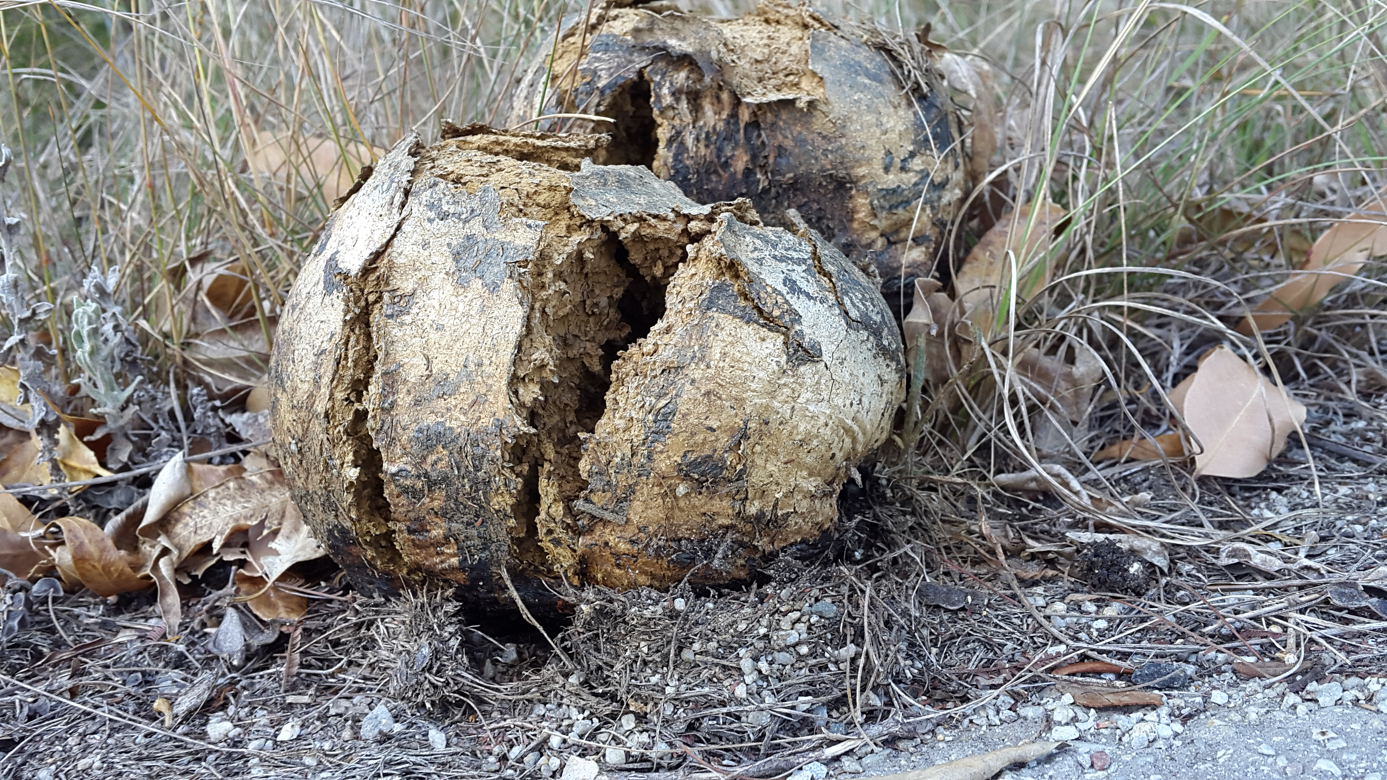 Pisolithus arhizus (Scop.) Rauschert (1959) (side view) - Perdebal (Afrikaans) - Nature's Valley, South Africa